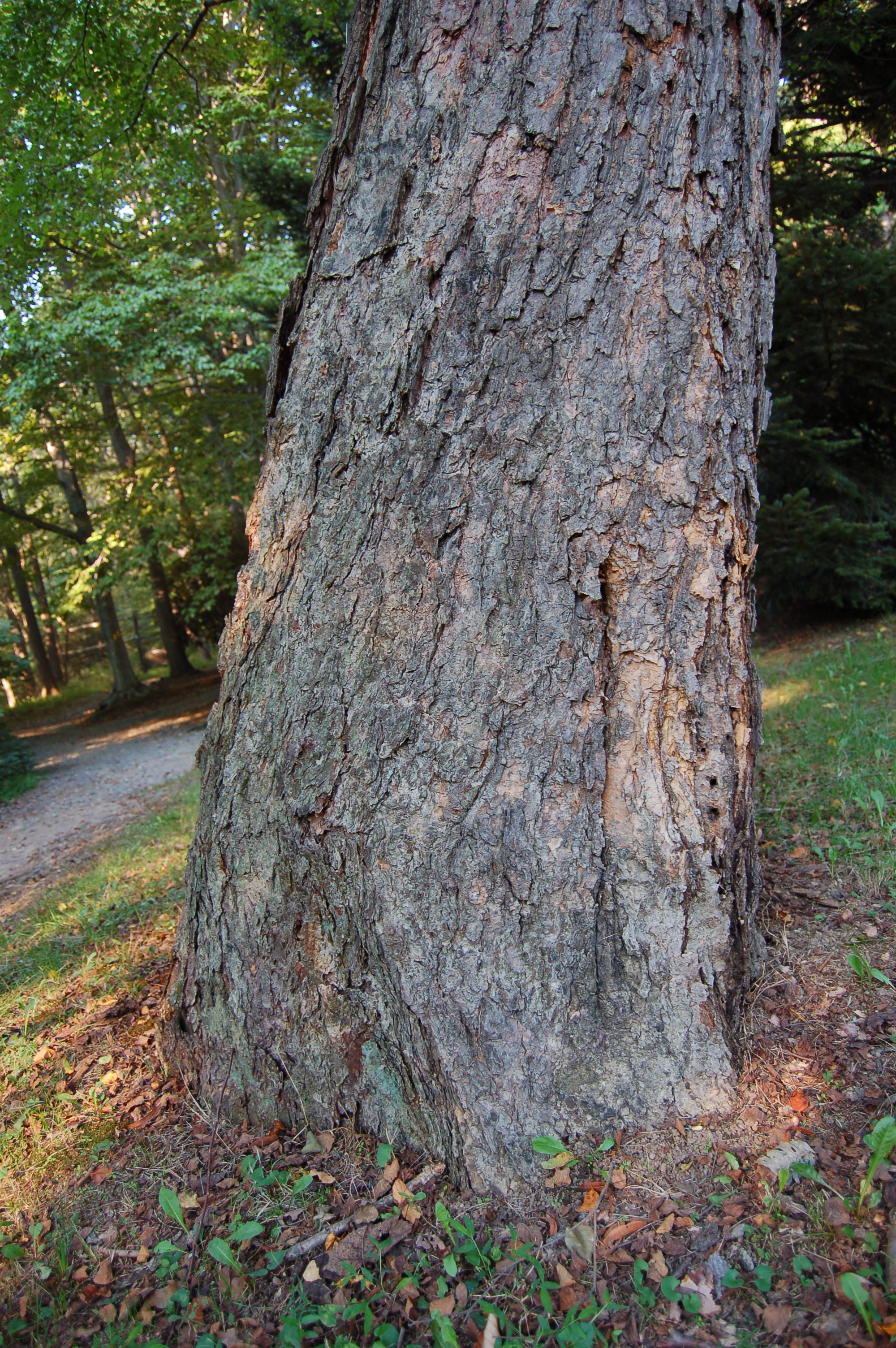 Photograph of the River Birchen (Betula nigra en ). Photo taken at the Tyler Arboretum where it was identified.